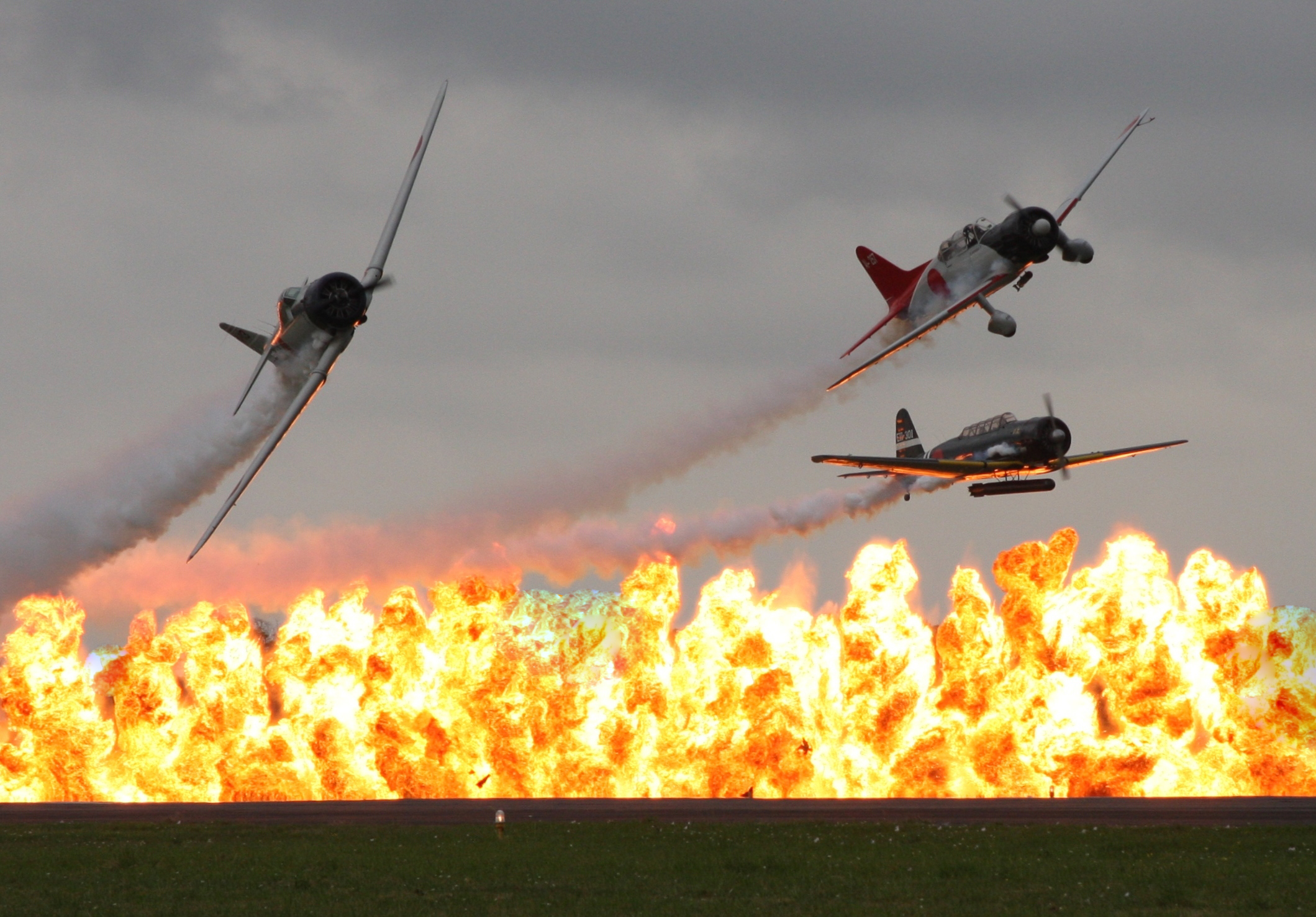 Commemorative Air Force Gulf Coast Wing's Tora! Tora! Tora! Gang flying a Zero, Kate, and Val, break over wall of fire created by the Tora Bomb Squad